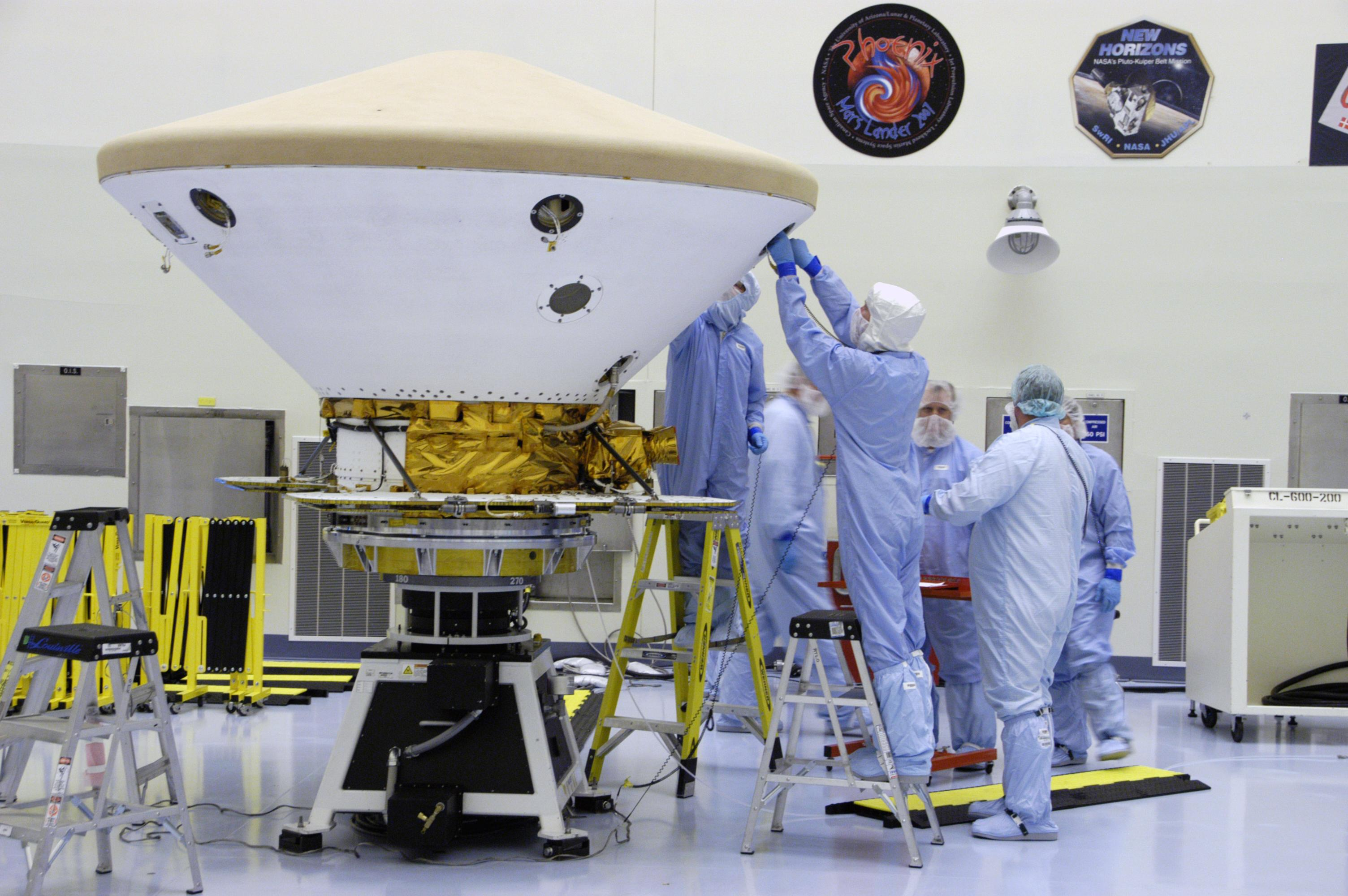 In the Payload Hazardous Servicing Facility, technicians complete the installation of the heat shield on the Phoenix Mars Lander spacecraft. The Phoenix mission is the first project in NASA's first openly competed program of Mars Scout missions. Phoenix will land in icy soils near the north polar permanent ice cap of Mars and explore the history of the water in these soils and any associated rocks, while monitoring polar climate. Landing is planned in May 2008 on arctic ground where a mission currently in orbit, Mars Odyssey, has detected high concentrations of ice just beneath the top layer of soil. It will serve as NASA's first exploration of a potential modern habitat on Mars and open the door to a renewed search for carbon-bearing compounds, last attempted with NASA's Viking missions in the 1970s. A stereo color camera and a weather station will study the surrounding environment while the other instruments check excavated soil samples for water, organic chemicals and conditions that could indicate whether the site was ever hospitable to life. Microscopes can reveal features as small as one one-thousandth the width of a human hair. Launch of Phoenix aboard a Delta II rocket is targeted for Aug. 3 from Cape Canaveral Air Force Station in Florida.